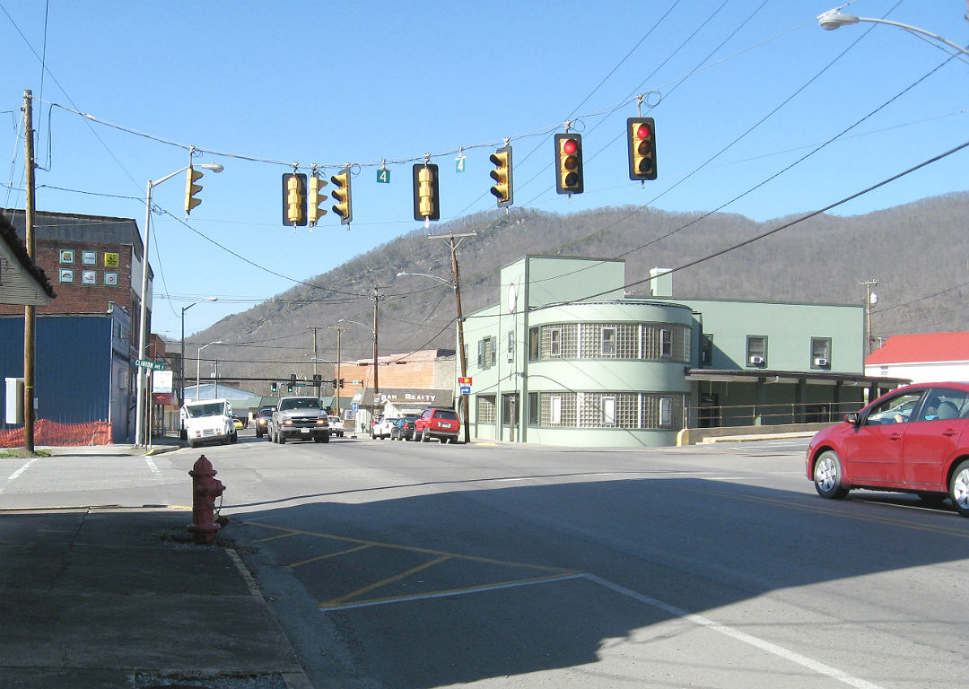 Main Street of Big Stone Gap, Virginia. Little Stone Mountain and the Big Stone Gap are visible in the background.